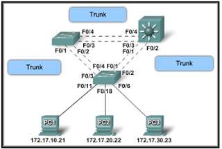 Switch Based Inter-VLAN Routing.